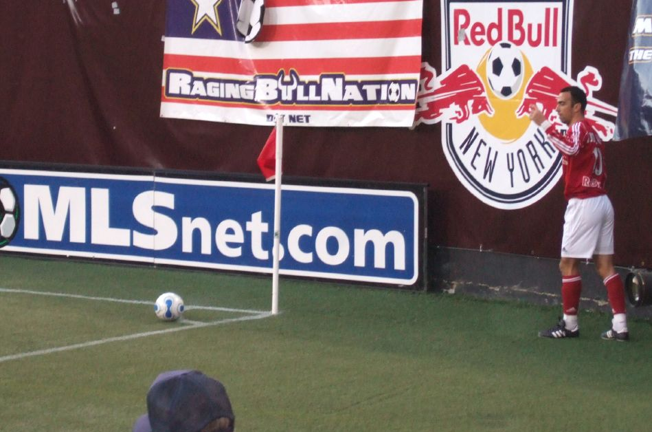 Youri Djorkaeff takes a corner with Red Bull New York